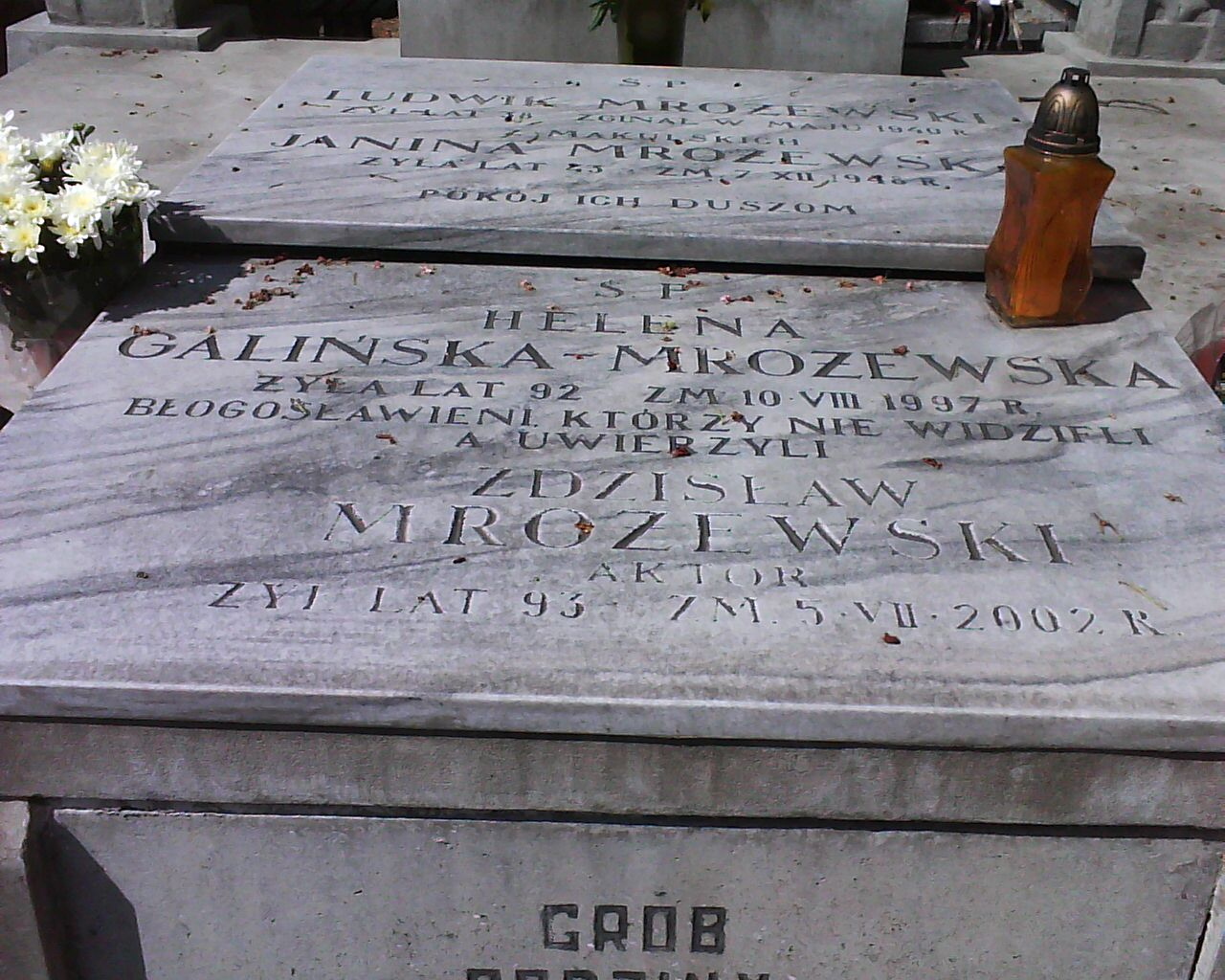 Gravestone of Zdzislaw Mrozewski - actor (Cemetery in Wloclawek, Poland).